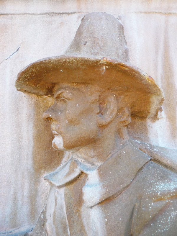 Raised relief sculptural bust of Captain John Underhill from the Underhill Burying Ground near Oyster Bay, New York. Captain John Underhill (7 Oct, 1597 – 21 July 1672) was an early English colonist in the Massachusetts Bay Colony and a soldier known for his great charisma, his excellent military leadership, and as one of the bravest men of his day. He is most noted for making the New Netherlands and Long Island secure from attacks by Native-Americans in the Pequot War of 1637 and another on Long Island in 1644.